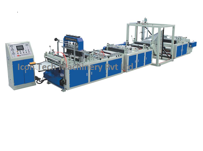 This machine equips computer orientation, photocell tracking, and man-machine interface touch screen operation; adopts high wave band ultrasonic heat-combining elements; make up of the functions with bag mouth inner folding, ribbon-through, stiletto, ultrasonic heat-combining cold-cutting etc. It’s the advanced machine to produce kinds of non woven fabrics handle shopping bag, shoes bag, fashion t-shirt bag 15-50g. Our company also can make the given design according to the customer’s requirement of different bag sizes. ICON TECH MACHINERY PVT LTD, NEW DELHI.